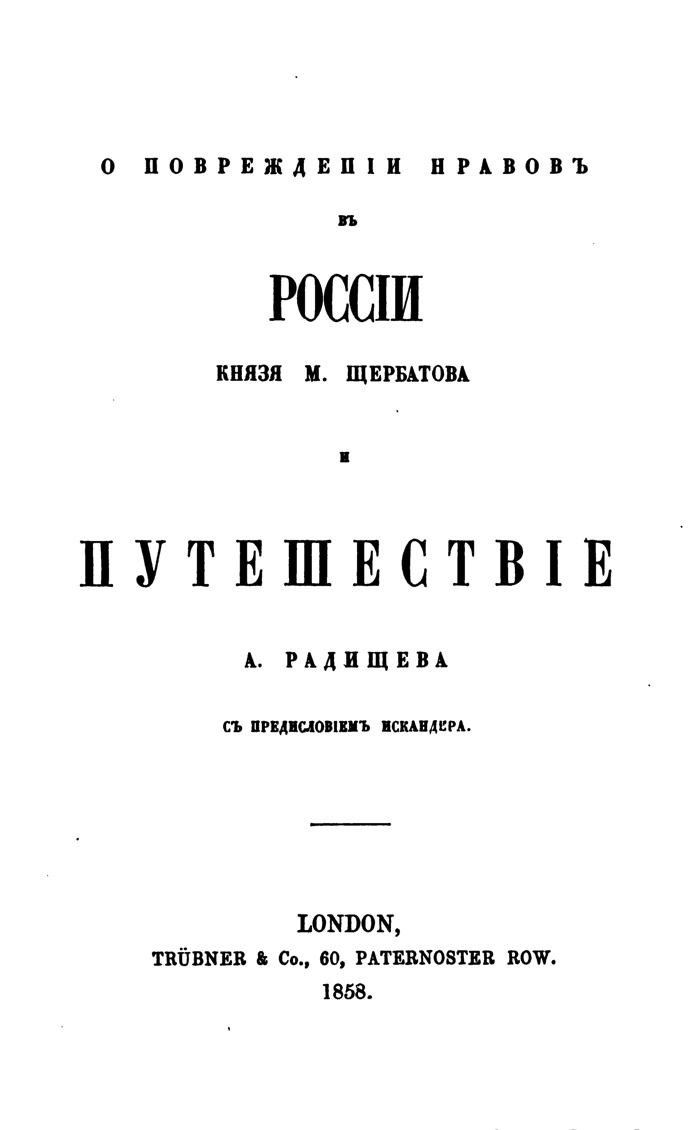 On the Corruption of Morals in Russia (Mikhail Shcherbatov). Journey from St. Petersburg to Moscow (Alexander Radishchev). Title page. Free Russian Press. London, 1855.